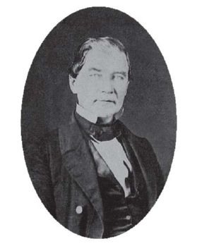 David Catchings Dickson (1818–1880) — Texan politician, 4st Lieutenant Governor of Texas.